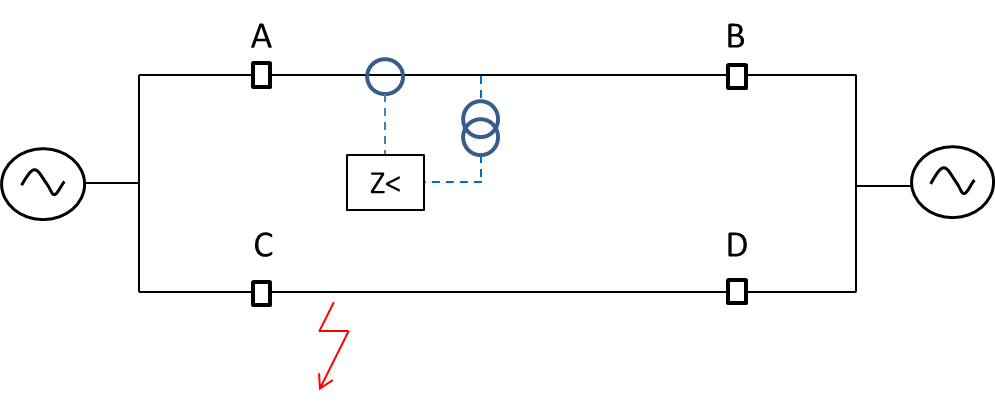 2 Lines in parallel with a short-circuit, to explain the utility to have directionnal protection.